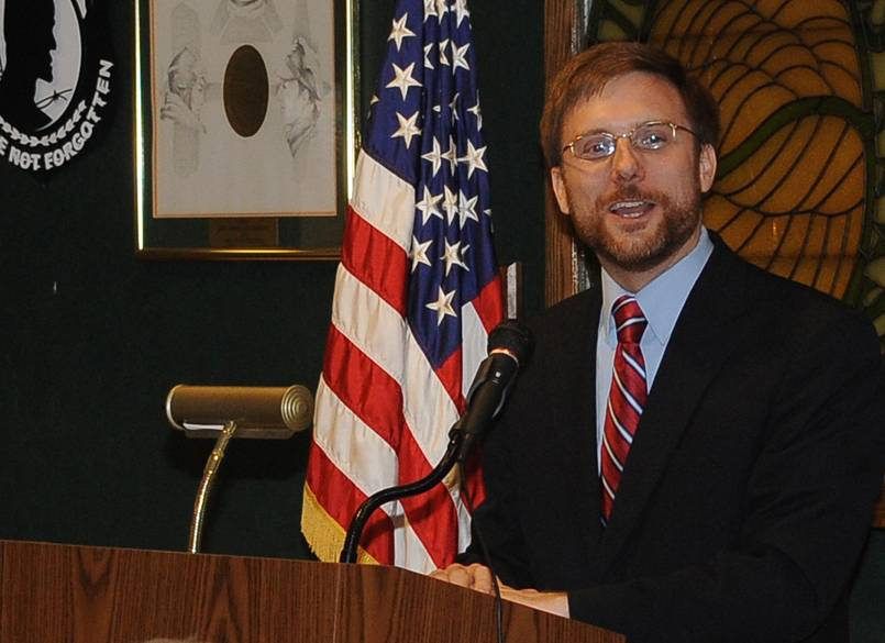 The Honorable Dr. Jamie Morin, Assistant Secretary of the Air Force (Financial Management and Comptroller), speaking to an American Society of Military Comptrollers chapter at Barksdale Air Force Base, Louisiana on 25 August 2010.